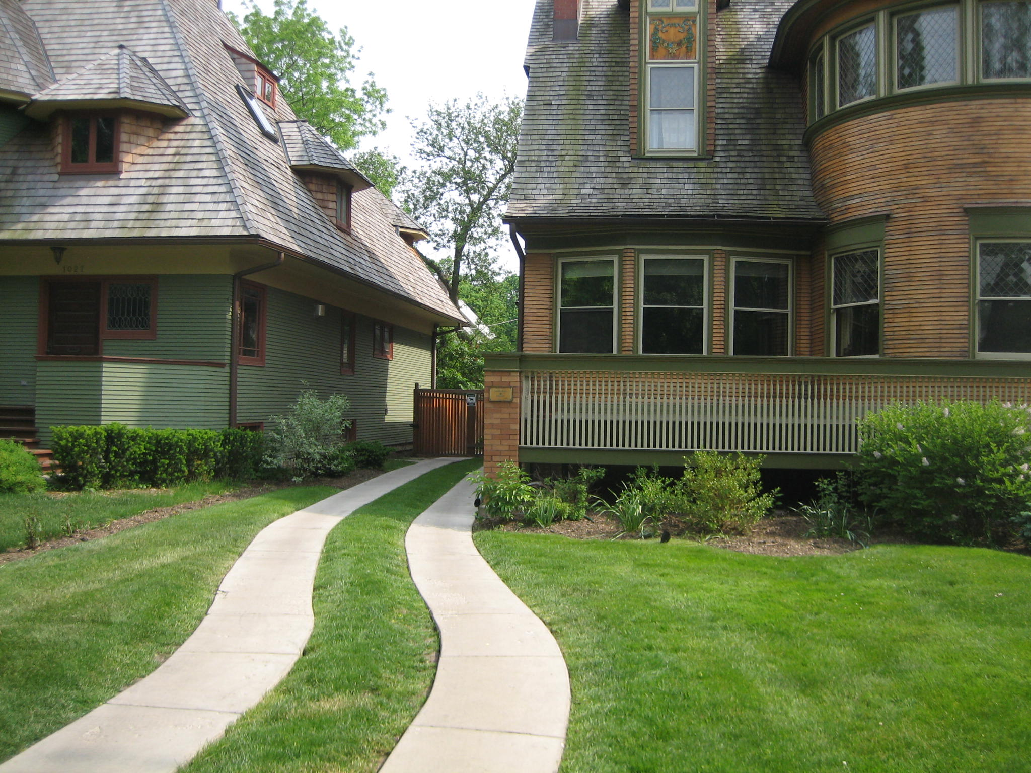 Walter H. Gale House, designed by Frank Lloyd Wright, 1893. National Register of Historic Places.